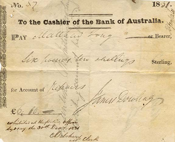 Forgery by John Knatchbull in 1831: In February 1832, Knatchbull was found guilty of "false making forging and counterfeiting a certain order for payment of money", in the name of Judge James Dowling. The forged note appears here as an exhibit for the prosecution. Knatchbull was found guilty and given a death sentence, which was later commuted to seven years to be served on Norfolk Island.